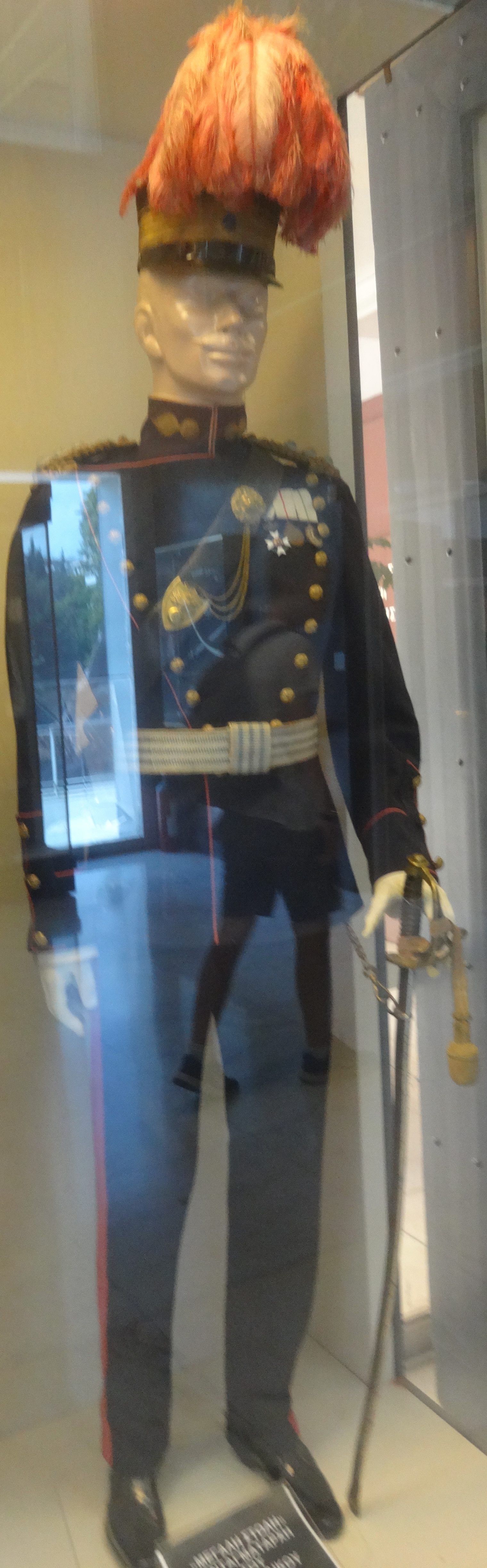 Full dress uniform of Greek artillery colonel in 1915, War museum, Athens, Greece